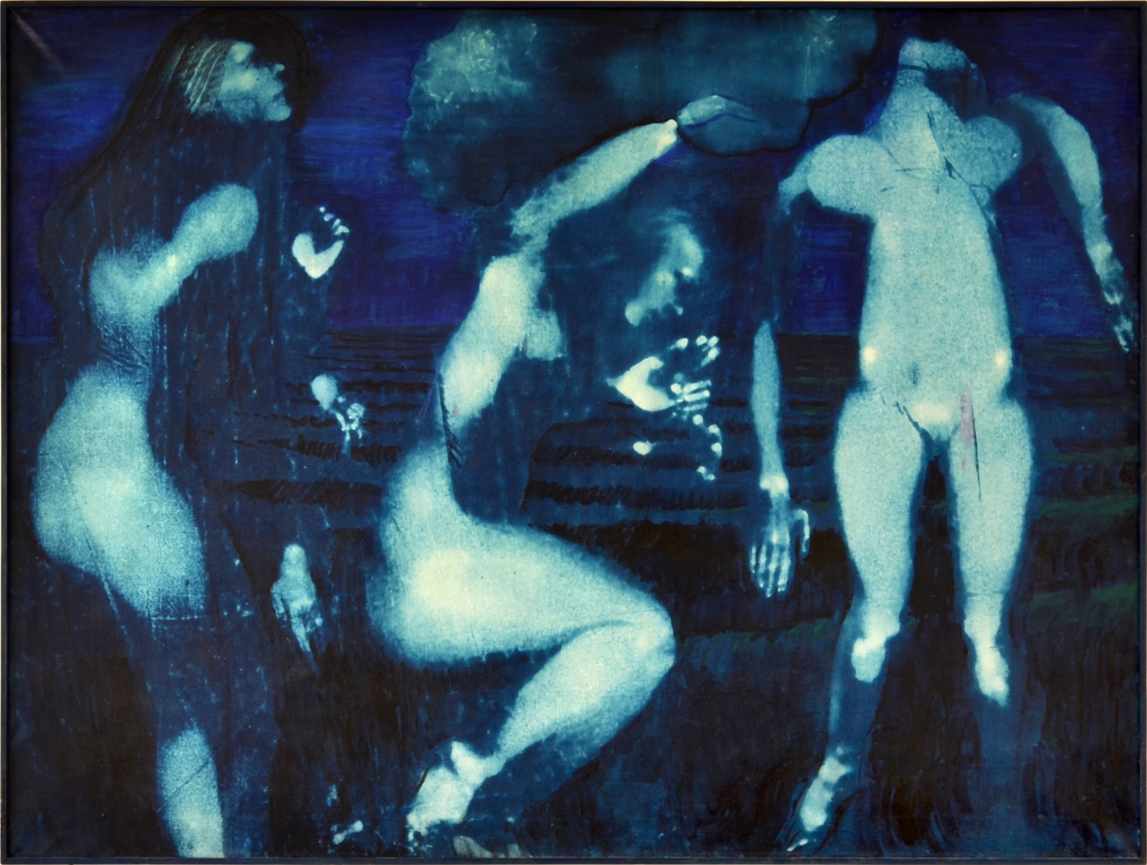 Rudolf Němec, Bathing in blue (1967), oil, email, canvas